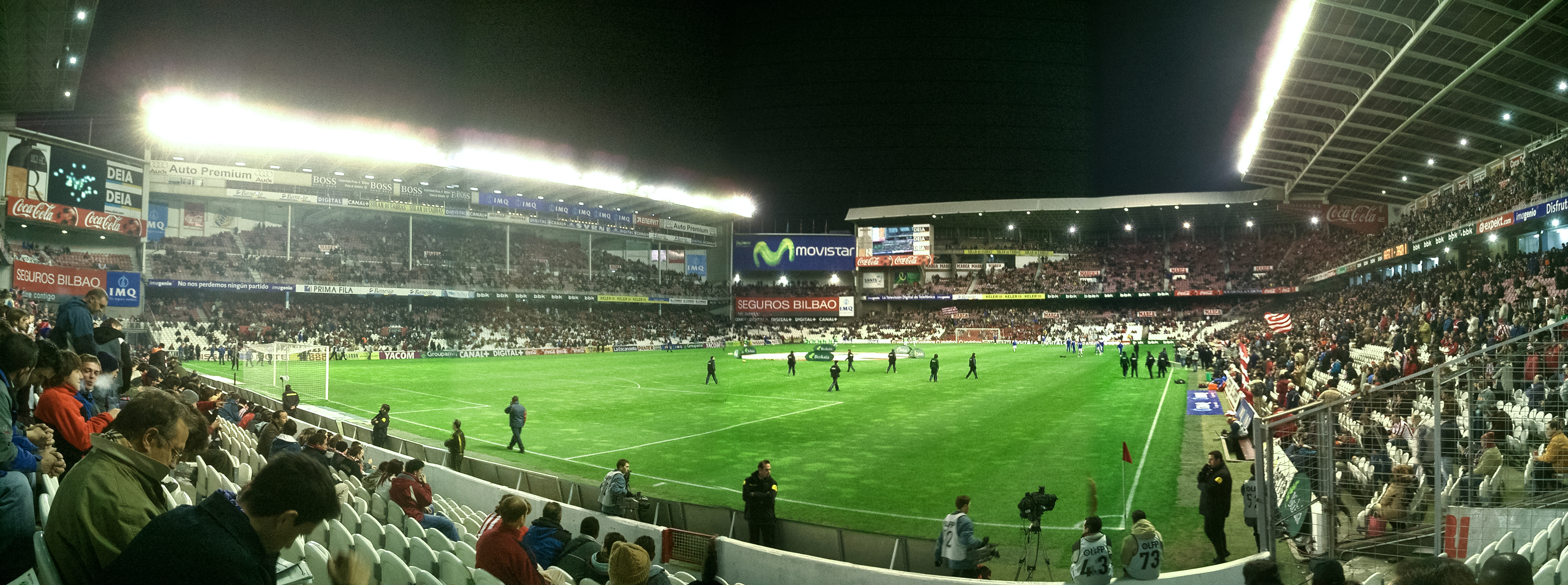 Interior view of Estadio San Mames in Bilbao